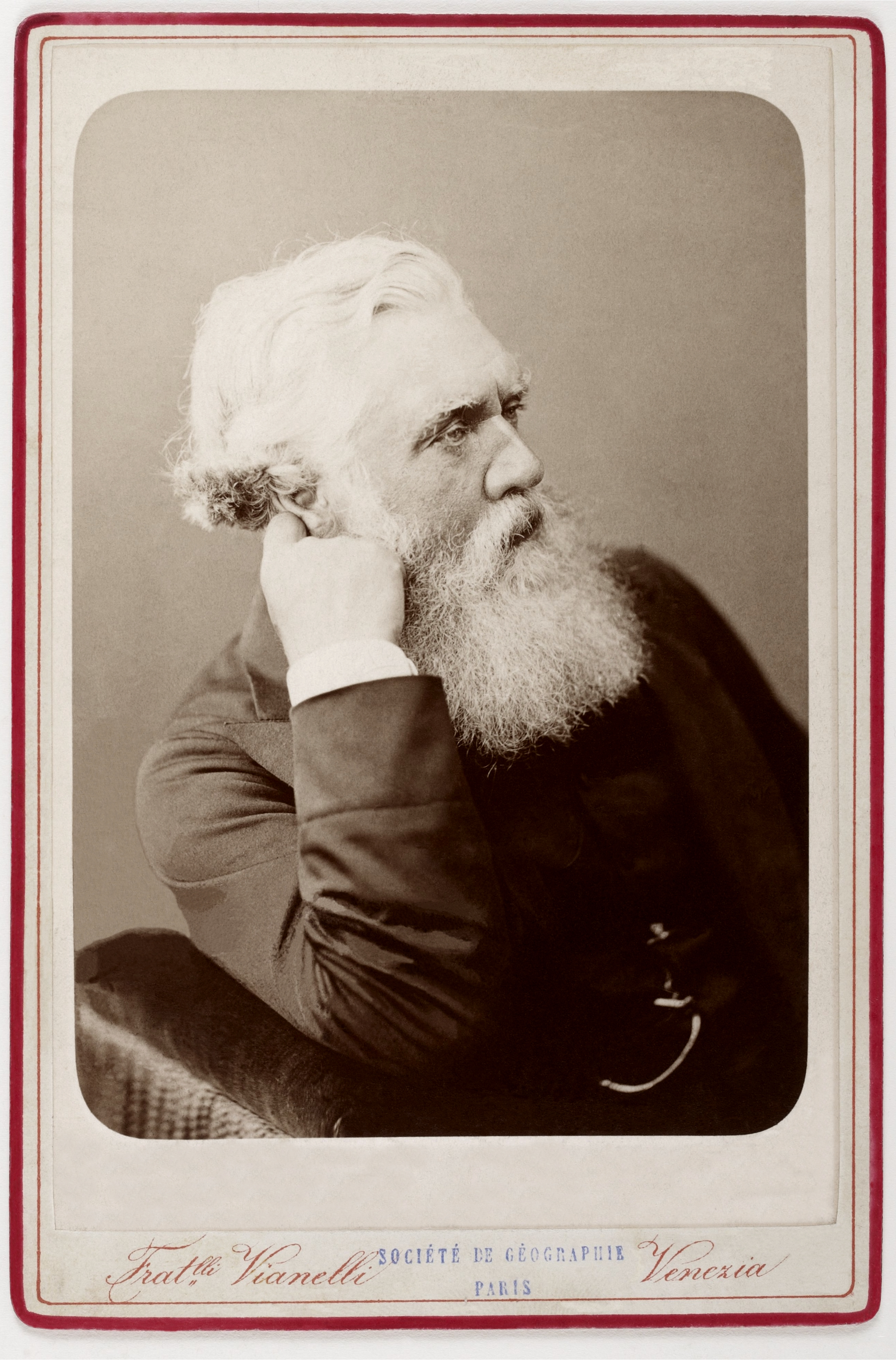 Austen Henry Layard (1817 - 1894), English traveller, archaeologist, cuneiformist, art historian, draughtsman, collector, author, politician and diplomat, best known as the excavator of Nimrud.